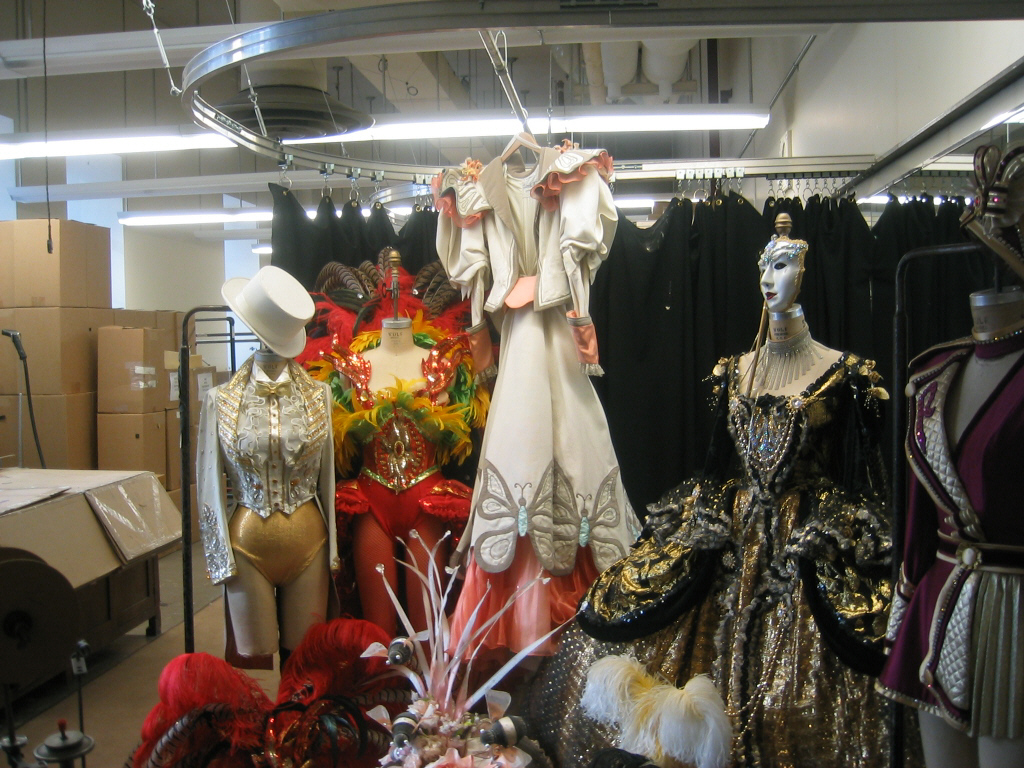 Costume storage room (in the foreground some interesting costumes specially displayed for guided tours) Radio City Music Hall, Manhattan, New York City